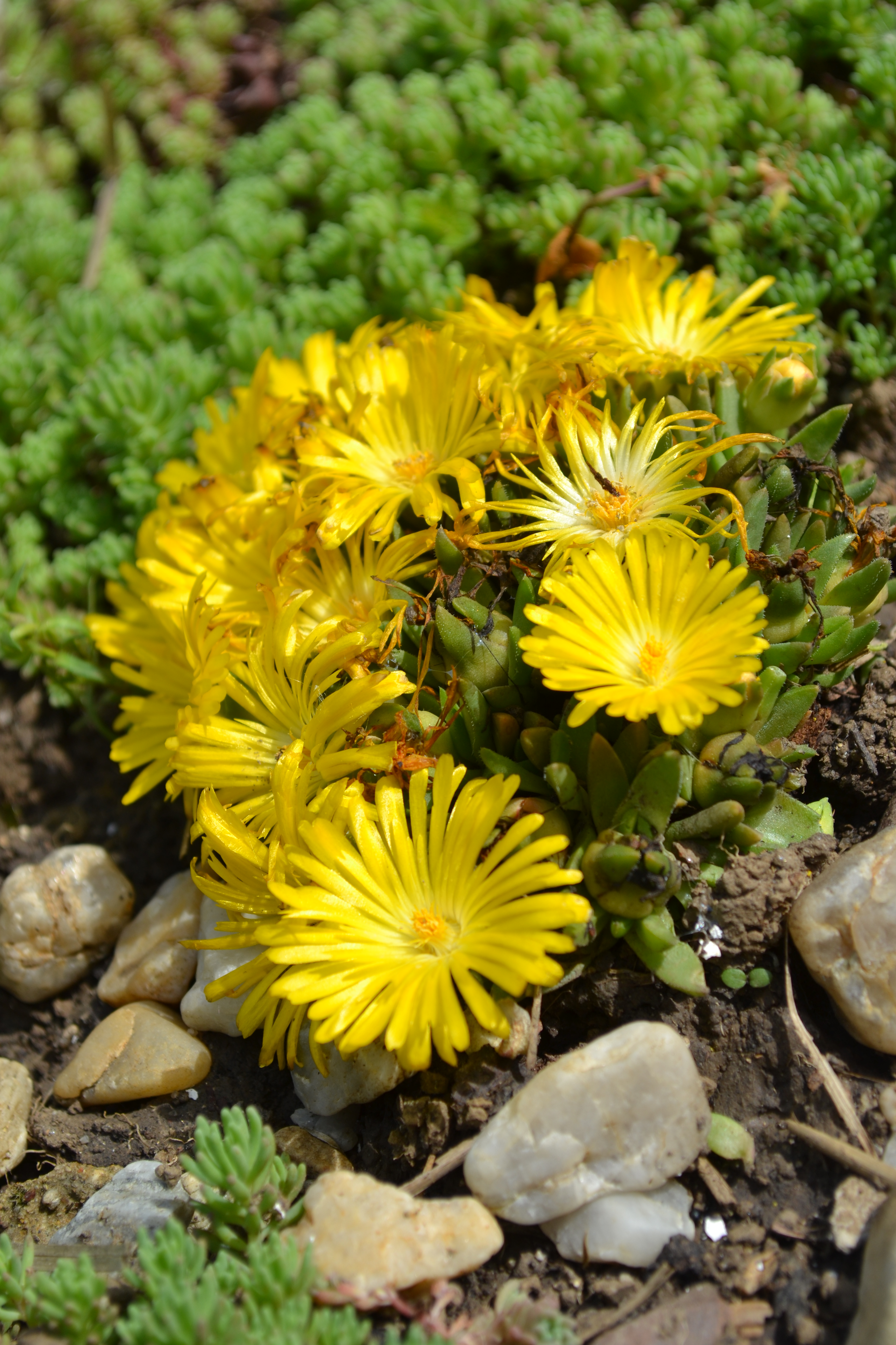 Delosperma yellow